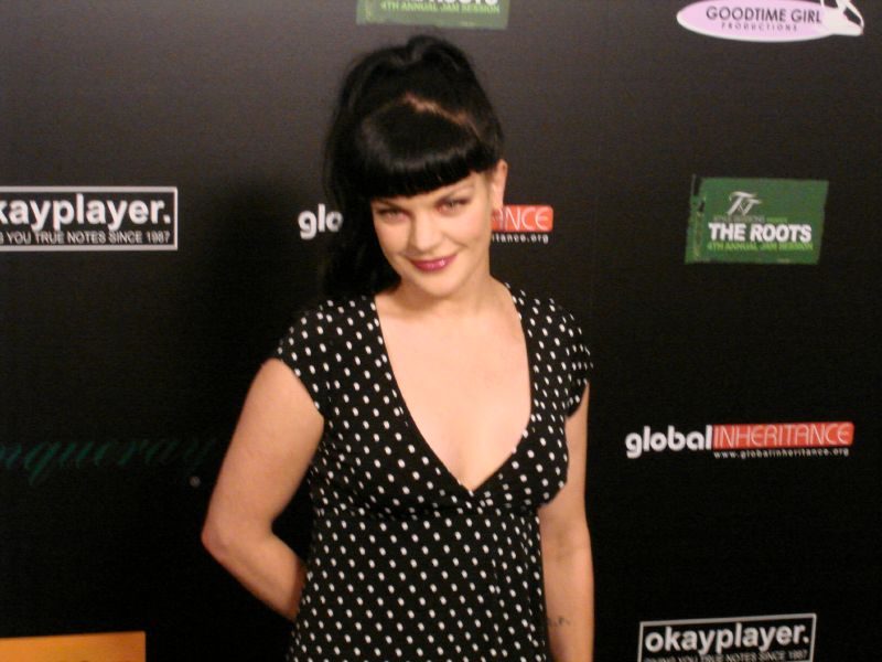 Pauley Perrette at the KeyClub, Los Angeles, 2/10/07. Photo by Ames Friedman.